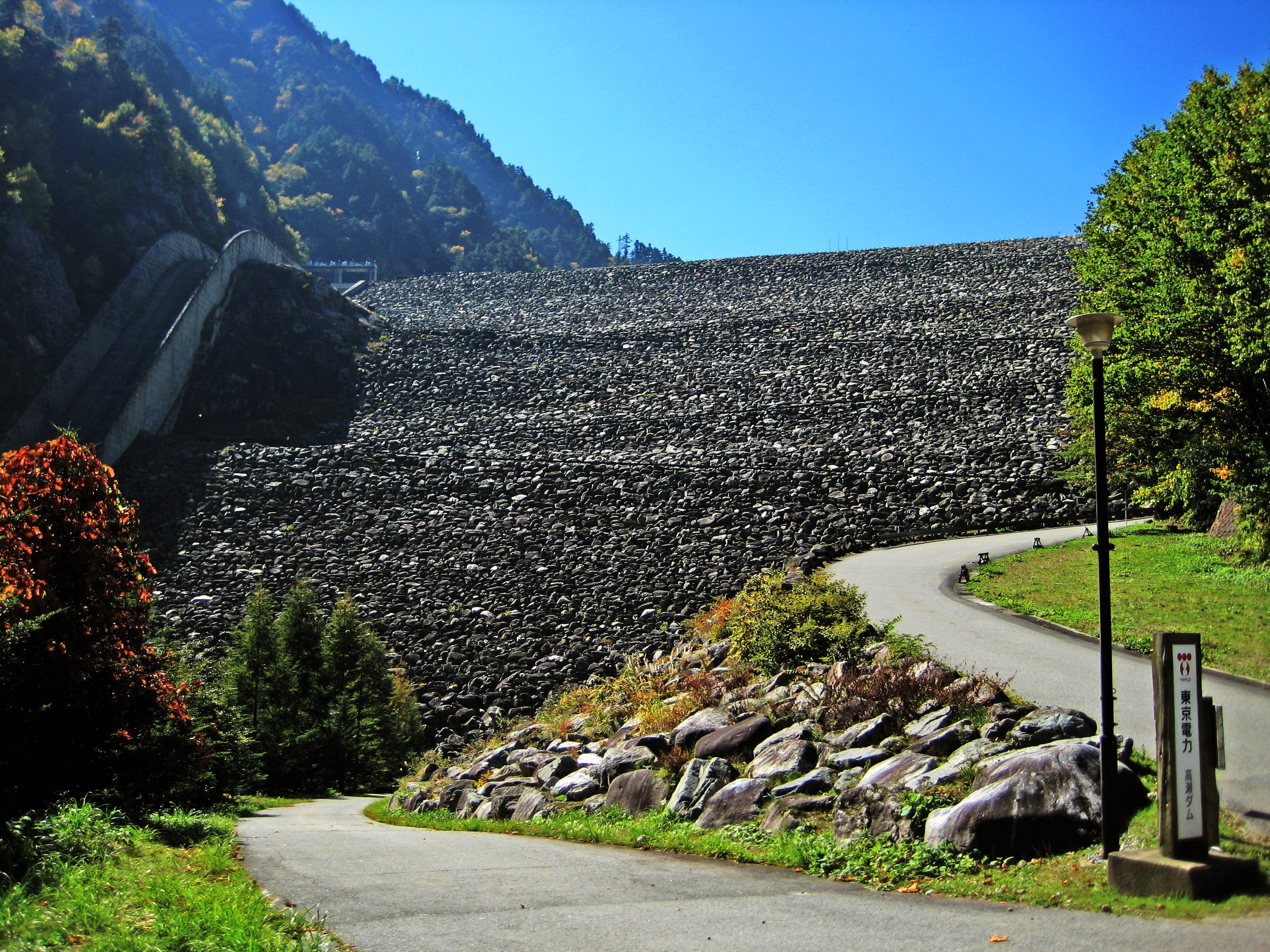 Takase Dam.